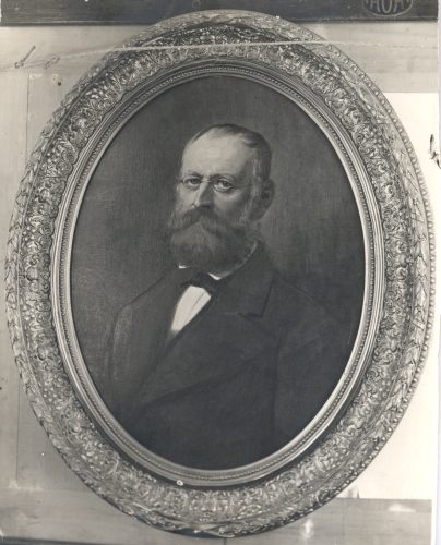 Alfred Vogel